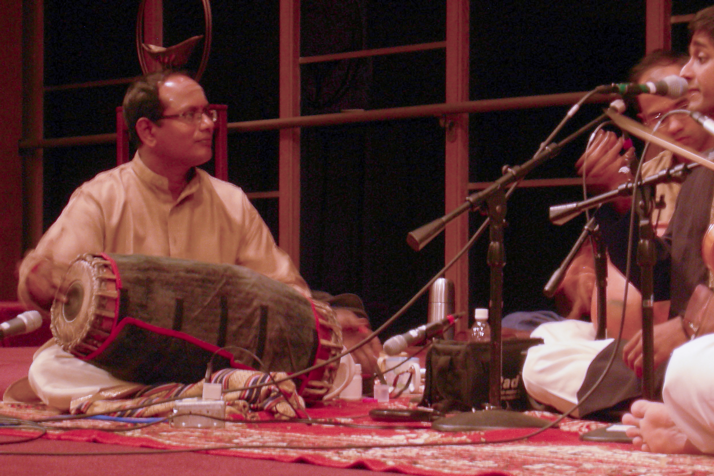 Ganapathy Raman (mridangam) accompanying Carnatic vocalist Abhishek Raghuram (visible at right) in concert at Eastshore Unitarian Church, Bellevue, Washington. Part of the Seattle-area Ragamala concert series. This is one of a series of photos I (Joe Mabel) took on that occasion. It was not ideal shooting conditions for my inexpensive digital camera, which only shoots at about the equivalent of ISO 400 at most. In general, I underexposed (in various degrees) to avoid too much motion blur, planning to fix what I could in postprocessing. About 60 images have been uploaded to the Wikimedia Commons. In each case, the raw version is uploaded and, in most cases, one (or occasionally two) versions that are colormapped lighter (and sometimes bluer) and, in about half the cases, cropped.